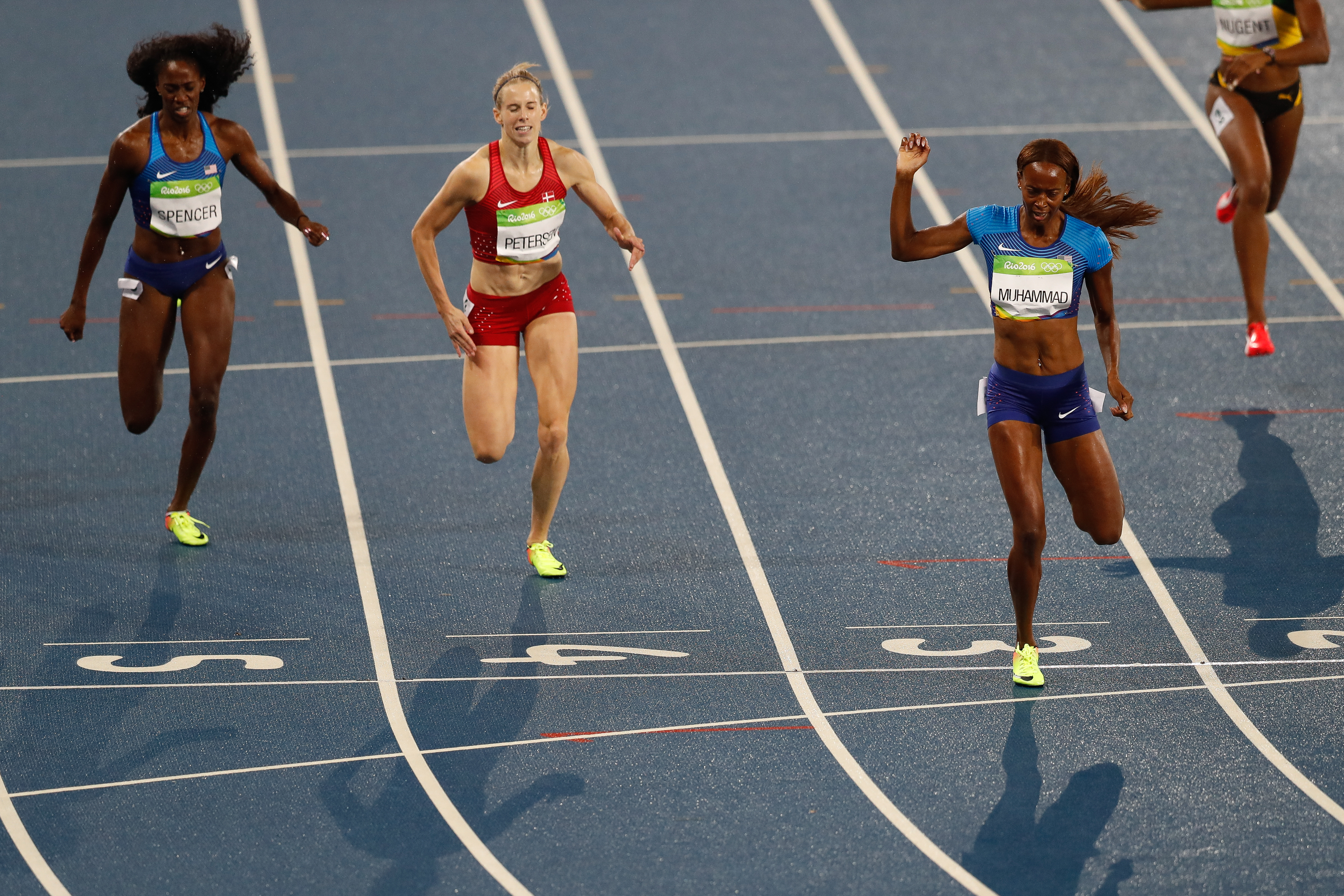 Rio de Janeiro - Dalilah Muhammad, dos Estados Unidos, vence os 400m com barreiras nos Jogos Rio 2016, no Estádio Olímpico. (Fernando Frazão/Agência Brasil)